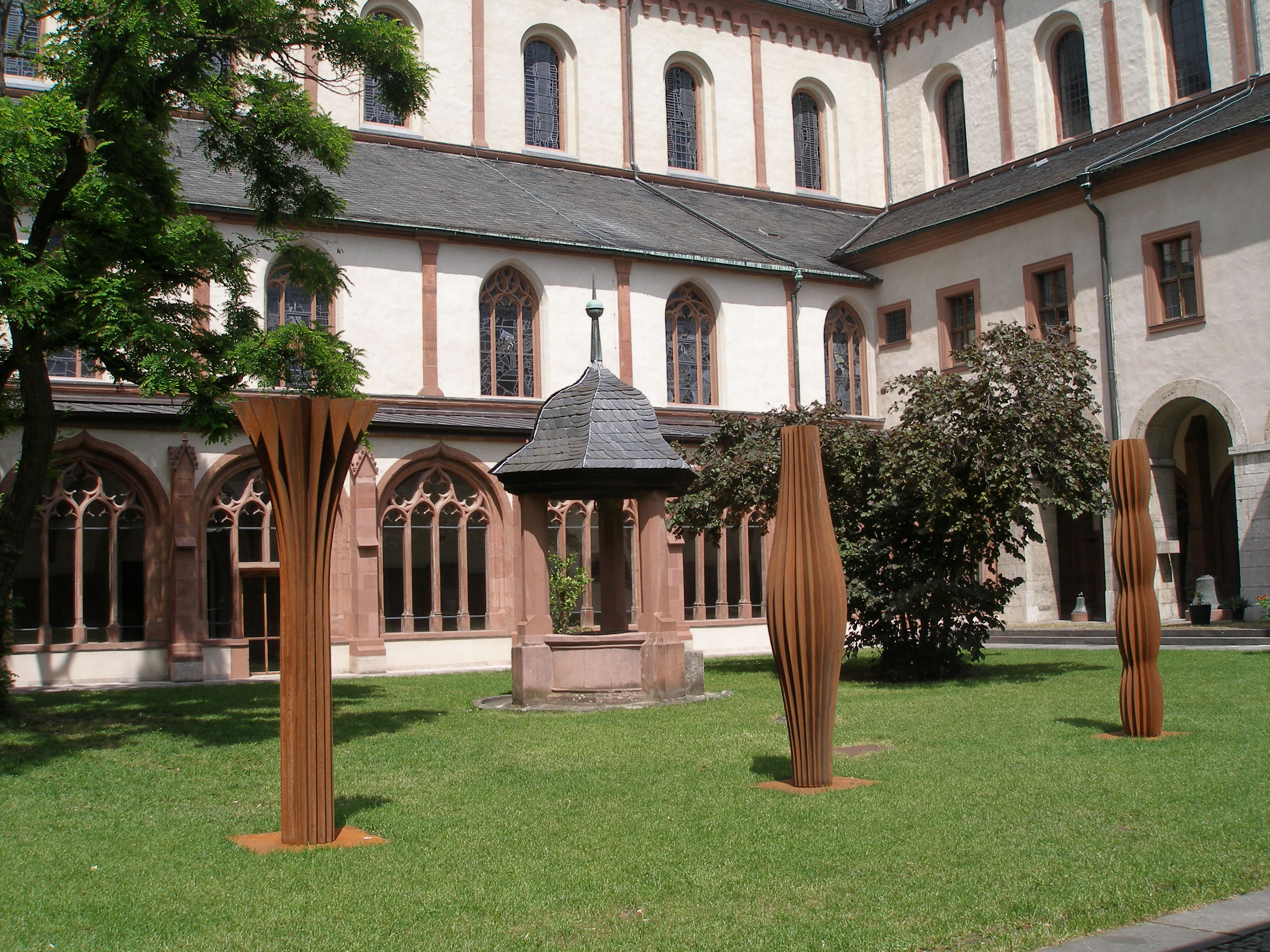 Well in Cathedral enclosure, Würzburg